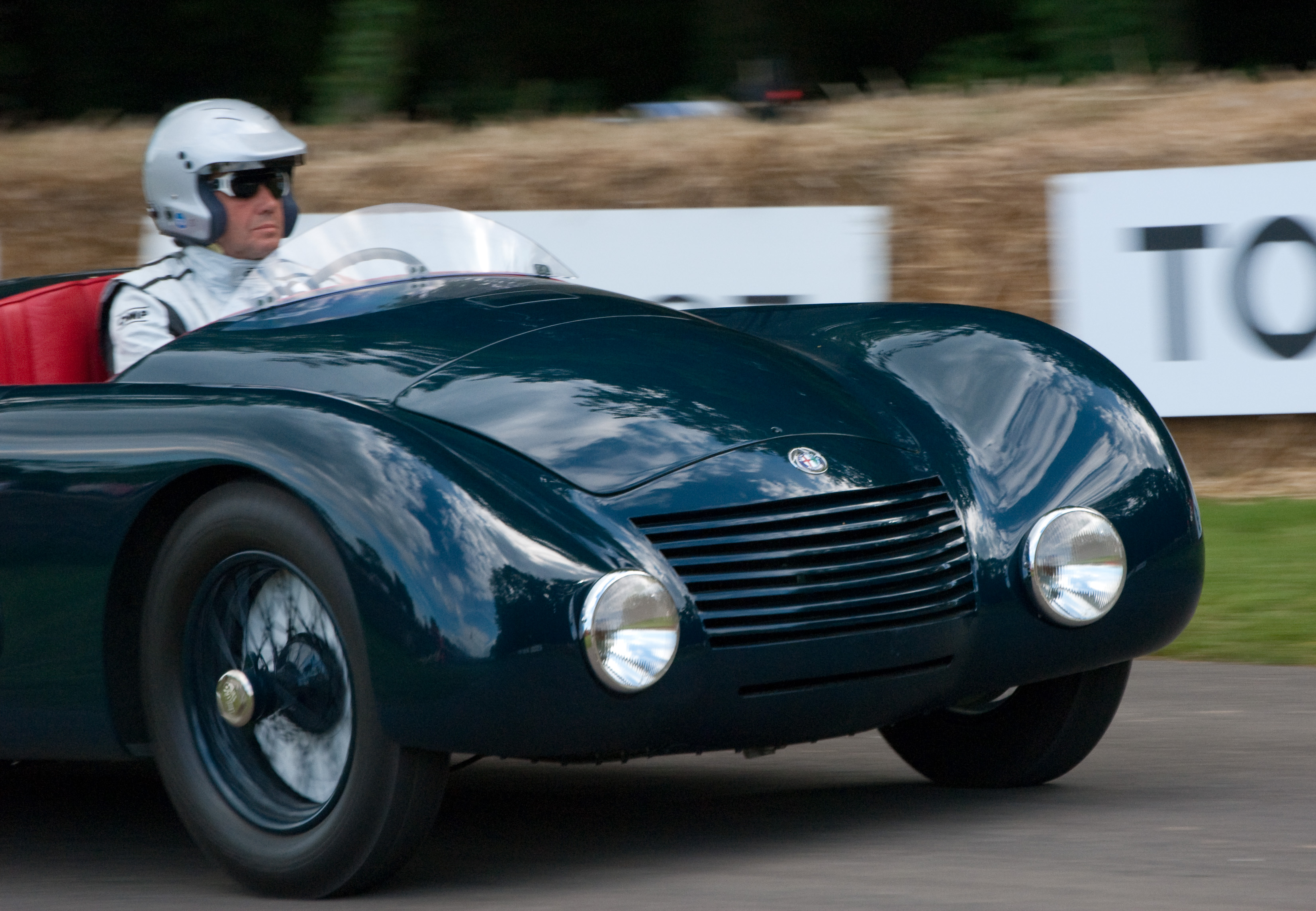 Alfa Romeo Aerodinamica Spider 1935 at Goodwood 2011